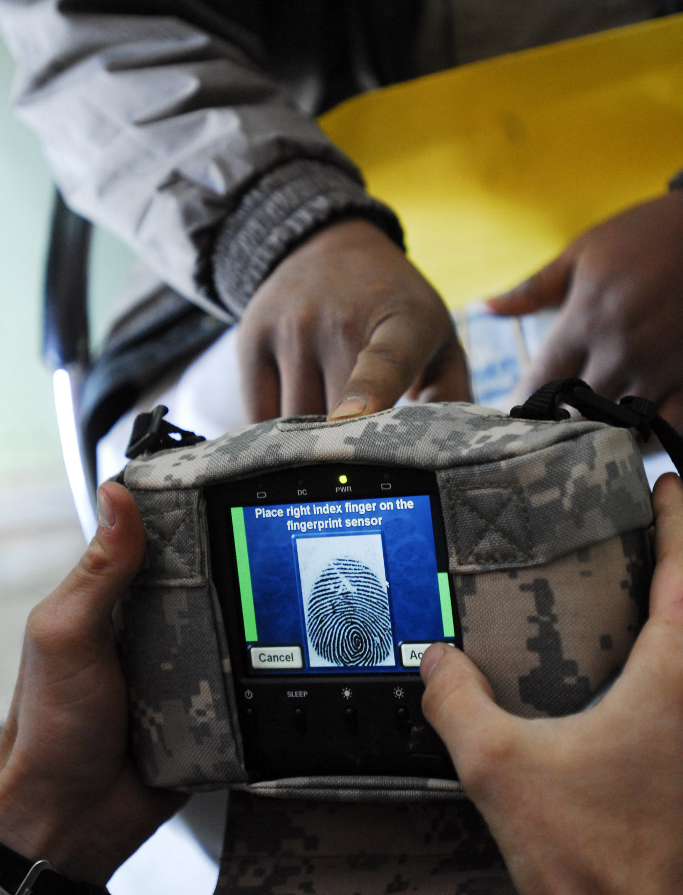 FORWARD OPERATING BASE FALCON, Iraq: Sgt. Casey O'Toole, an infantryman from Eden Prairie, Minn., assigned to Company A, 2nd Battalion, 4th Infantry Regiment, attached to the 1st Brigade Combat Team, 4th Infantry Division, Multi-National Division Baghdad, uses Handheld Interagency Identification Detection Equipment to scan a Sons of Iraq member's index finger during payday activities in the Rashid district of southern Baghdad.